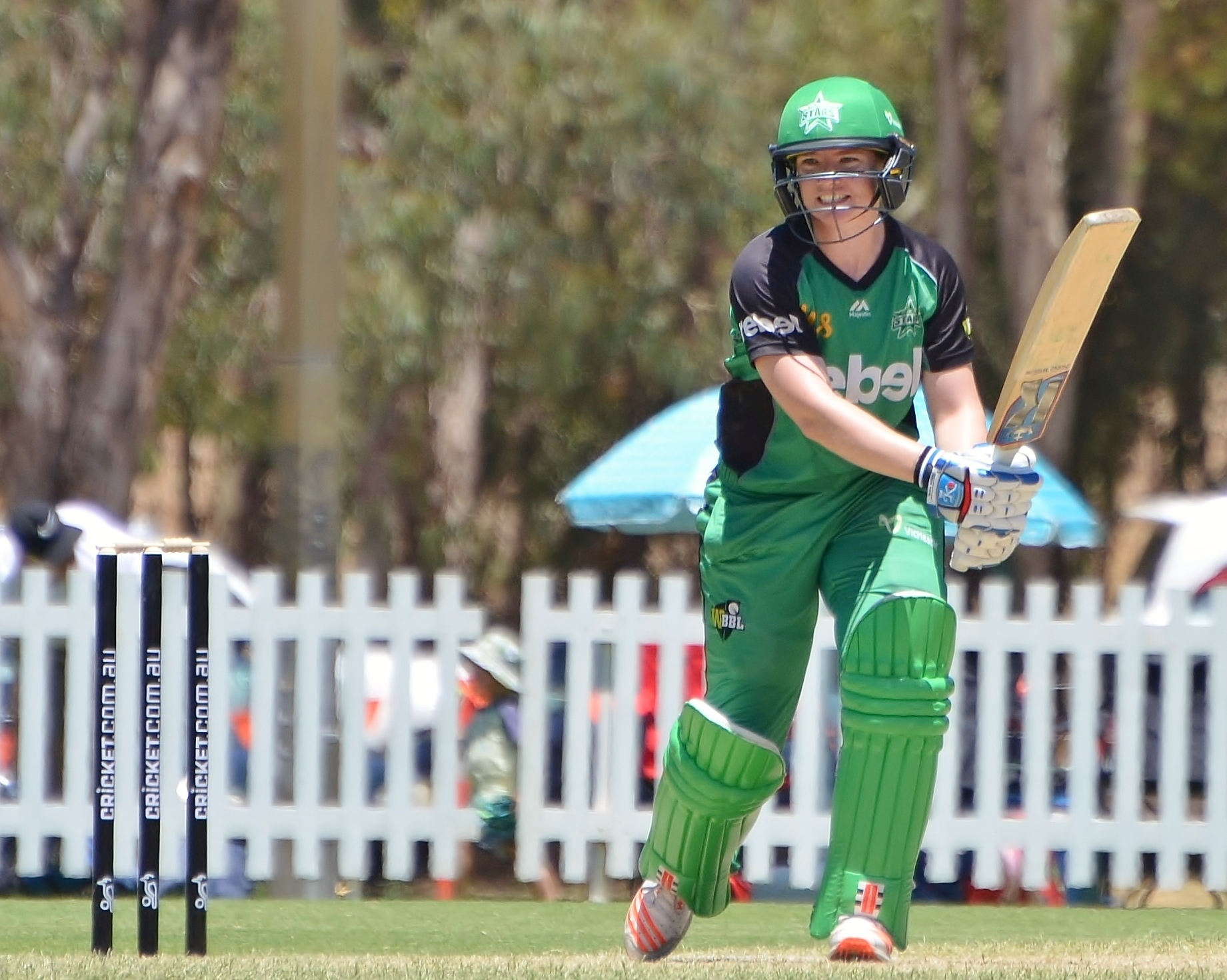 Jess Cameron batting for Melbourne Stars (WBBL) against Perth Scorchers (WBBL) at Lilac Hill Park, Perth, Australia.